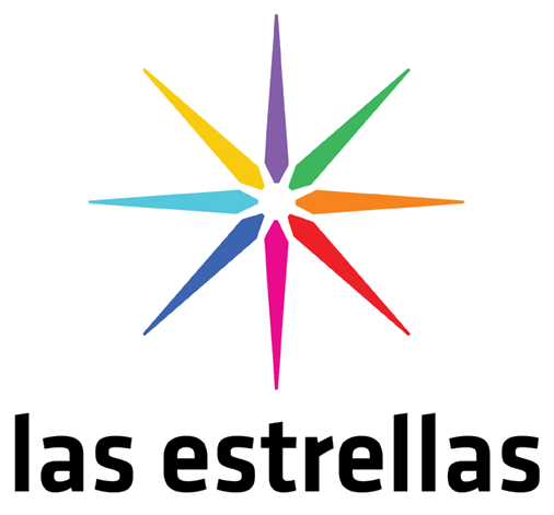 Las Estrellas New Logo